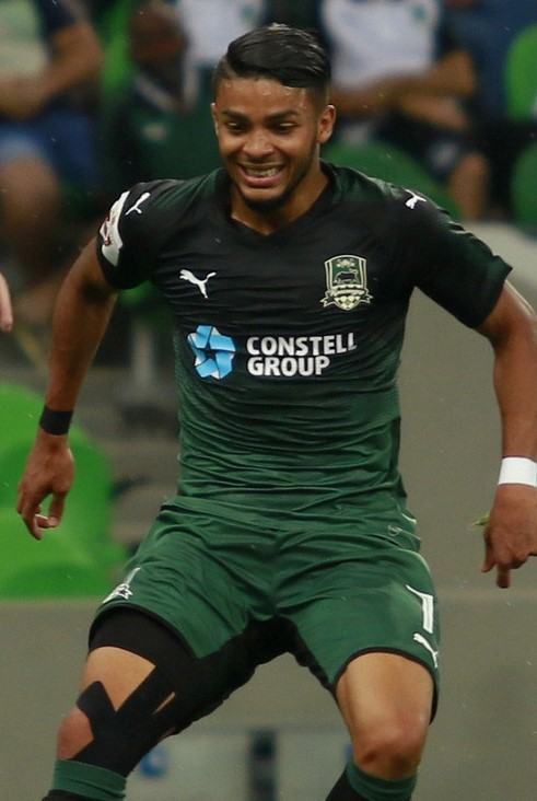 Wanderson Maciel Sousa Campos